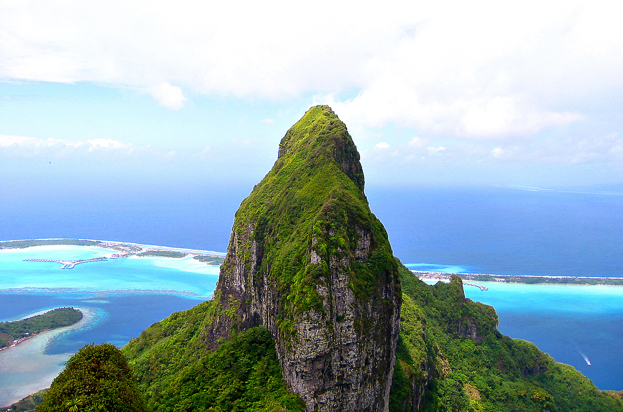 Bora Bora, North-East view from Mt. Pahia, French Polynesia